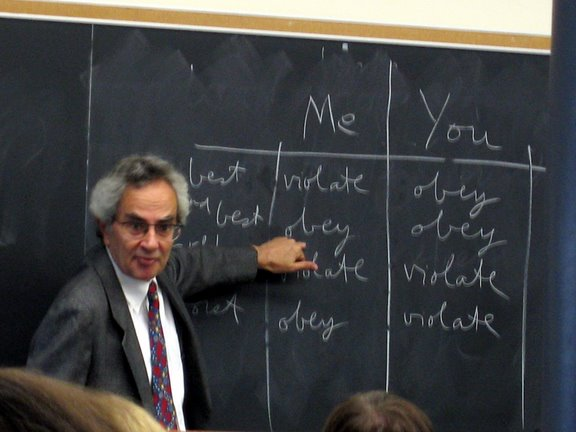 Thomas Nagel teaching an undergraduate course in ethics at New York University.